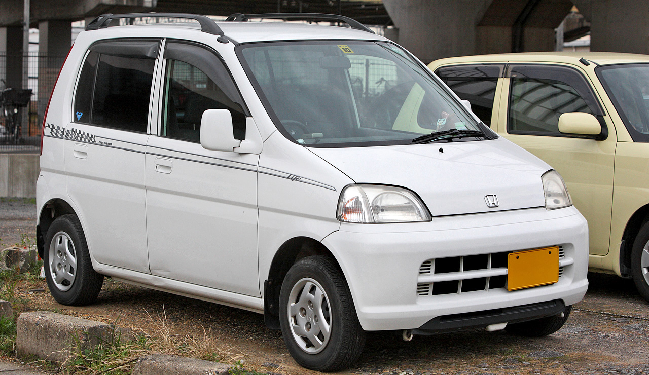 Honda Life ( JB1 )